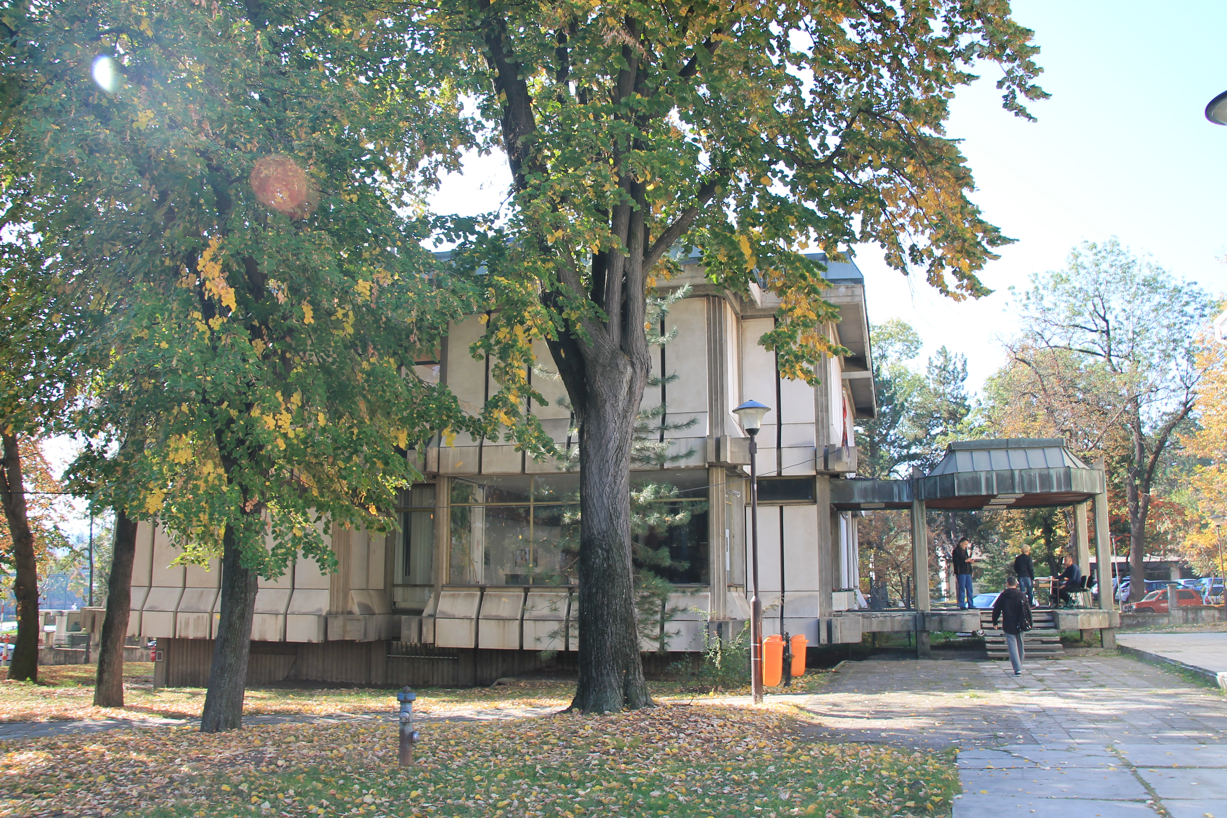 National Museum of Kragujevac